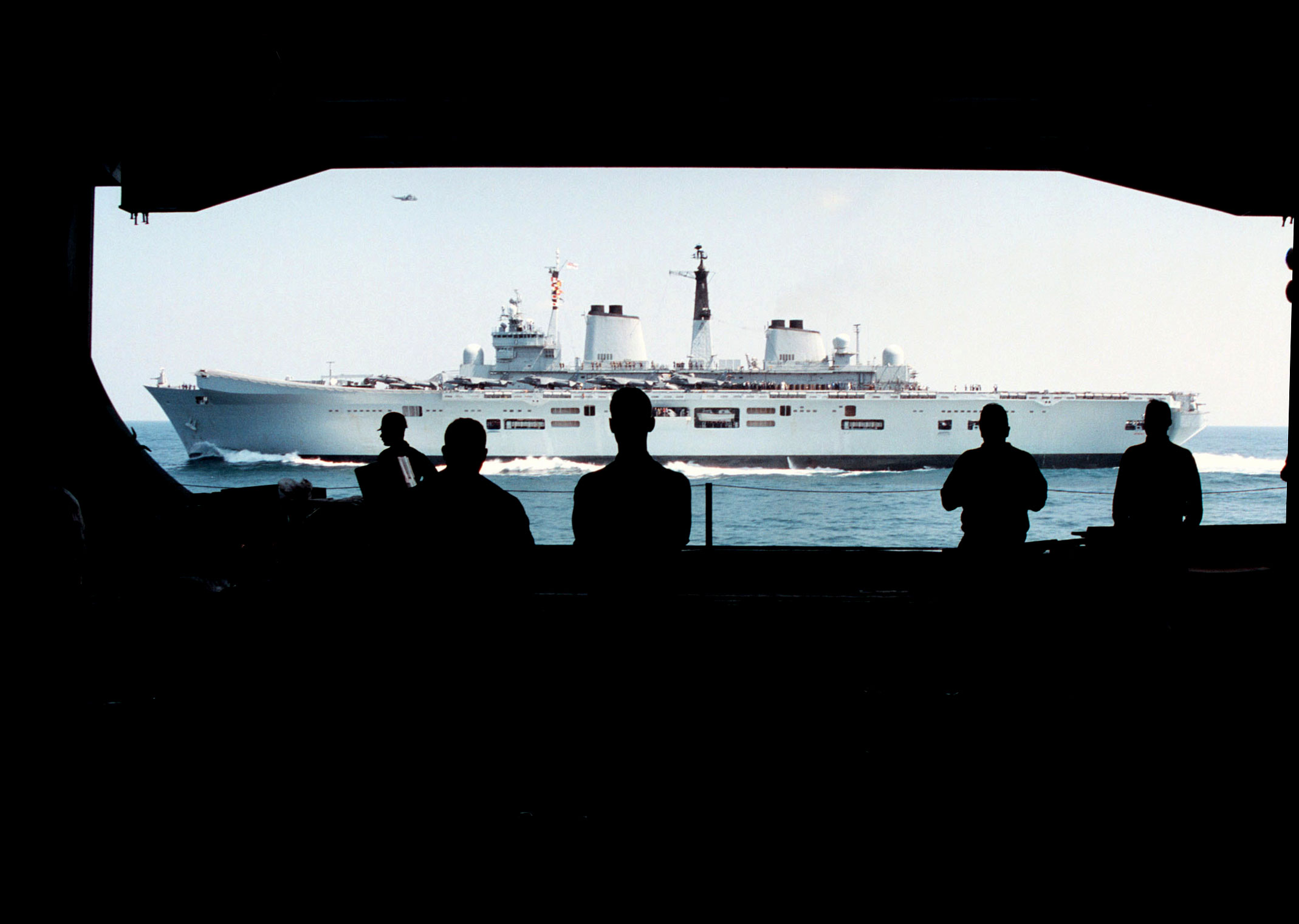 Crew members aboard the U.S. Navy aircraft carrier USS George Washington (CVN 73) watch from the ship's hangar bay as the British Royal Navy aircraft carrier HMS Invincible (R05) comes alongside as the two ships operate in the Persian Gulf on March 5, 1998. Both carriers are deployed to the Persian Gulf in support of Operation Southern Watch.